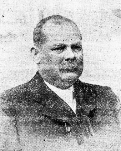 John Thomas, member of Glamorgan County Council, former agent for the Garw District of the South Wales Miners' Federation, and newly-appointed magistrate.